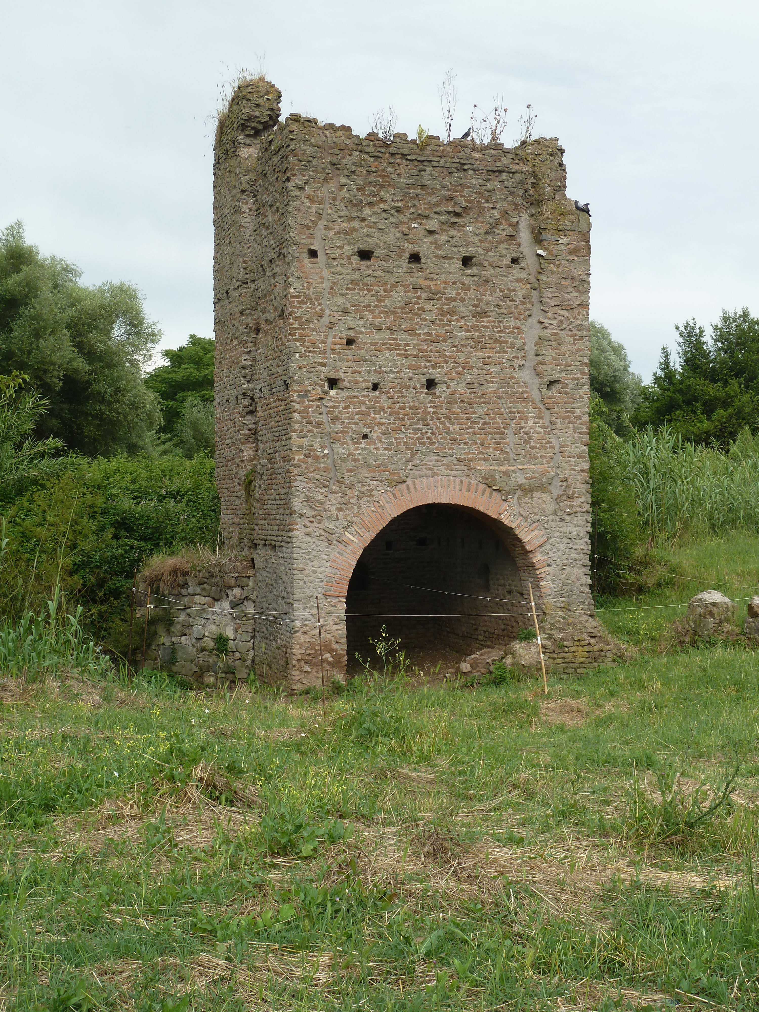 Valca Tower Parco Caffarella, Rome